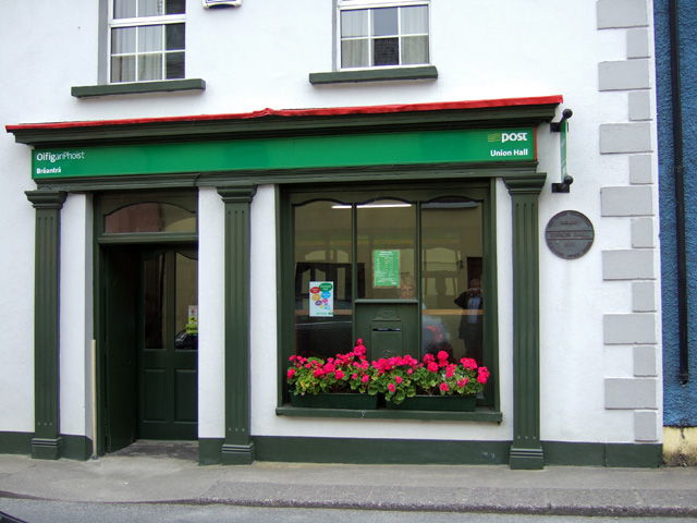 Union Hall Post Office Unionhall or Union Hall? The Post Office says 'Union Hall' the Ordnance Survey says 'Unionhall'. However, the original Irish name is Bréantrá.